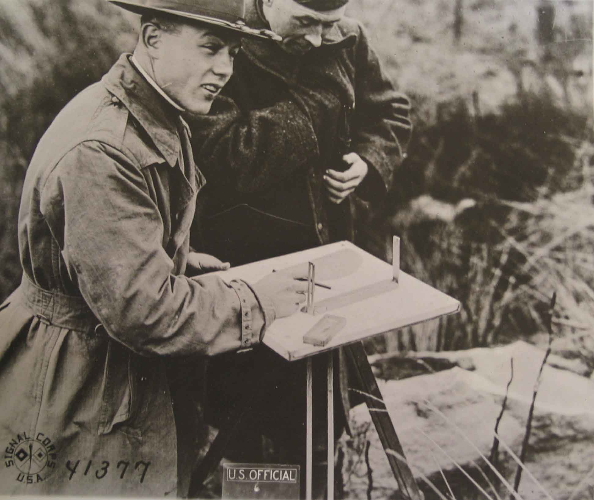 Image of an officer and soldier making maps in France, 1917-1918.